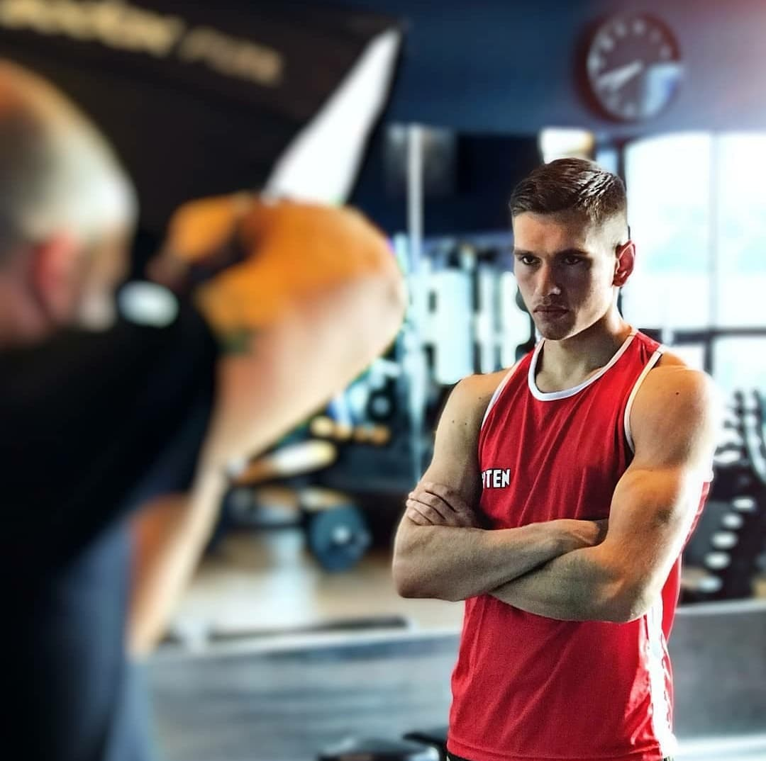 Mindaugas Gedminas is an Olympic Boxing Athlete.